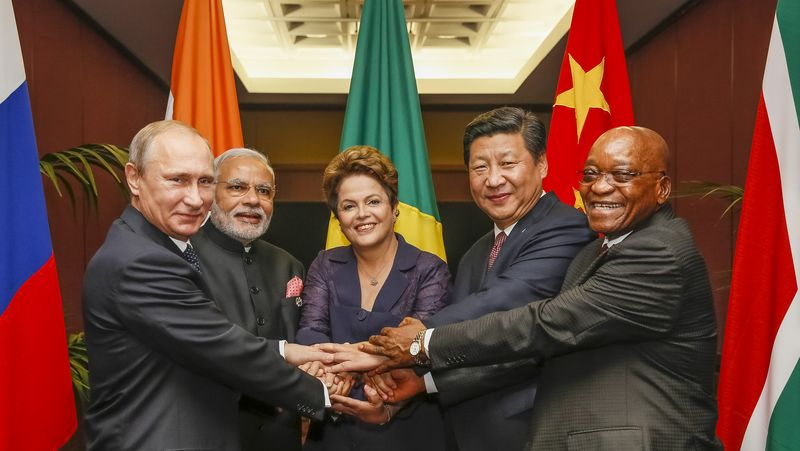 BRICS heads of state and government hold hands ahead of the 2014 G-20 summit in Brisbane, Australia.